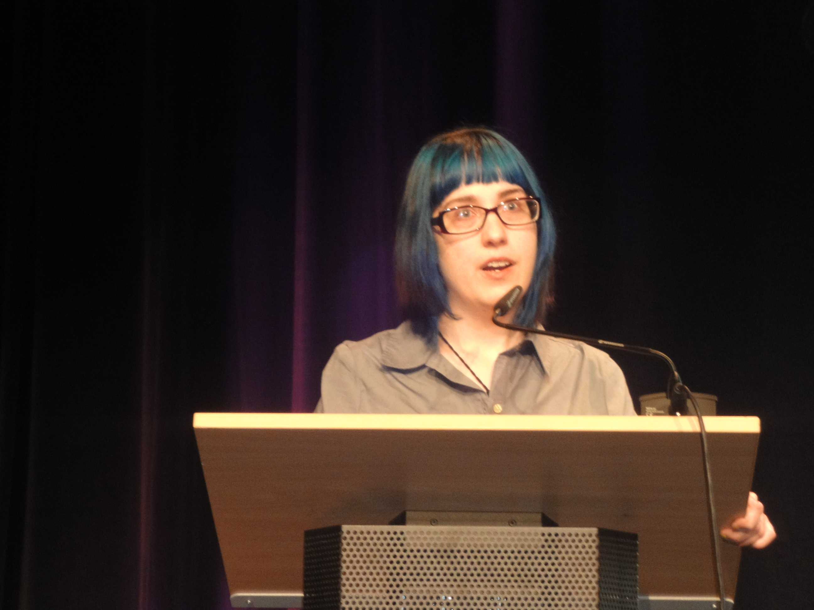 activist, podcaster, feminist, atheist